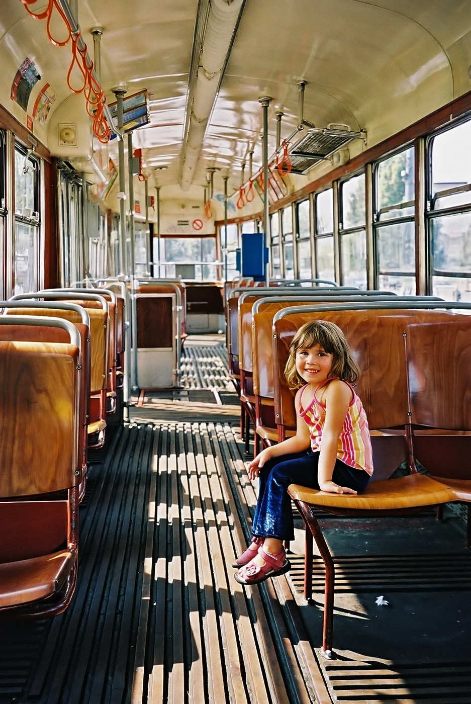 The interior of a tram, photographed in Vienna, Austria in the summer of 2002. The car shown here is one of the oldest currently in use on Vienna's tracks.